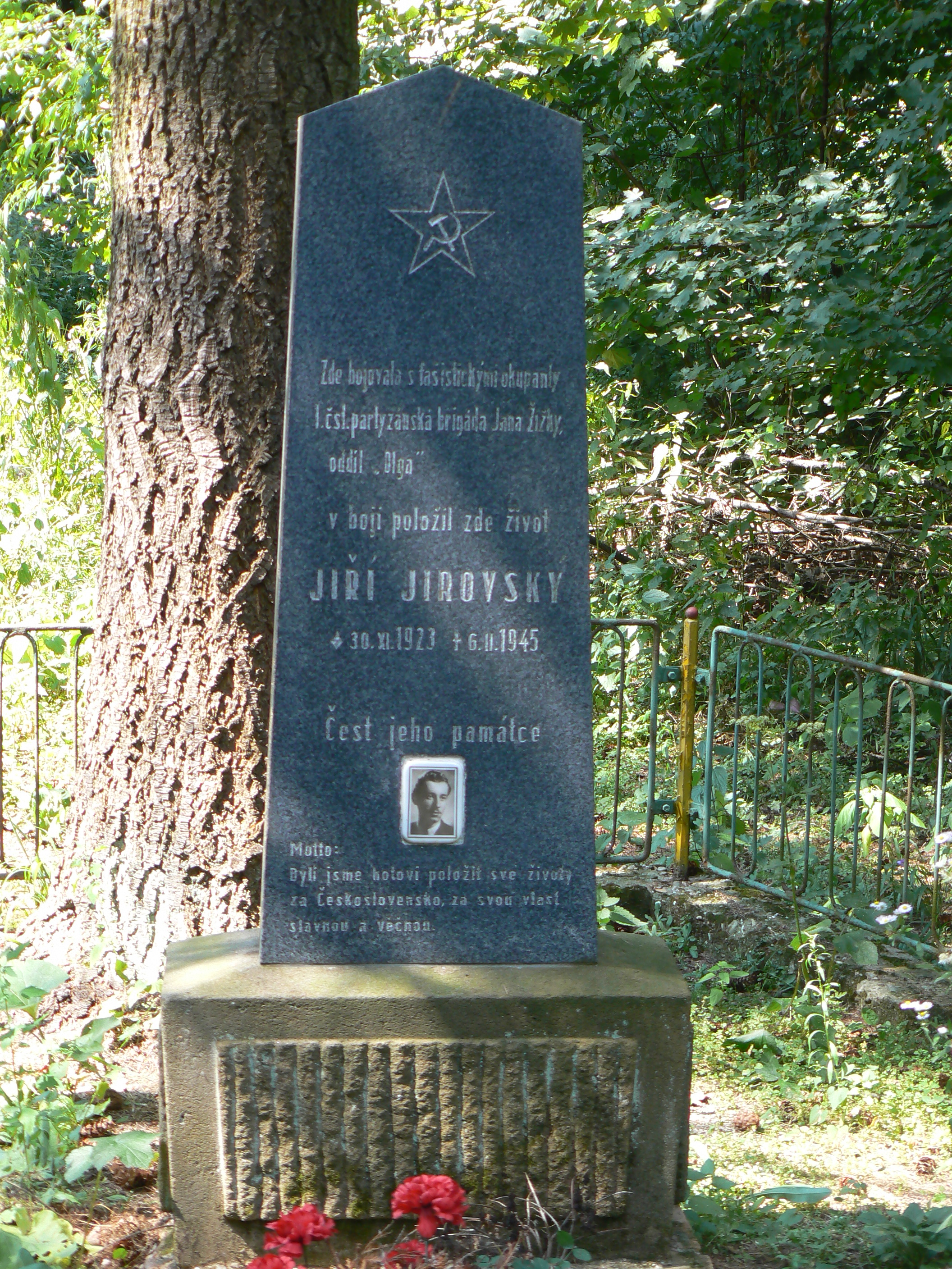 Memorial of partisans in Ždánický les, Czech Republic.